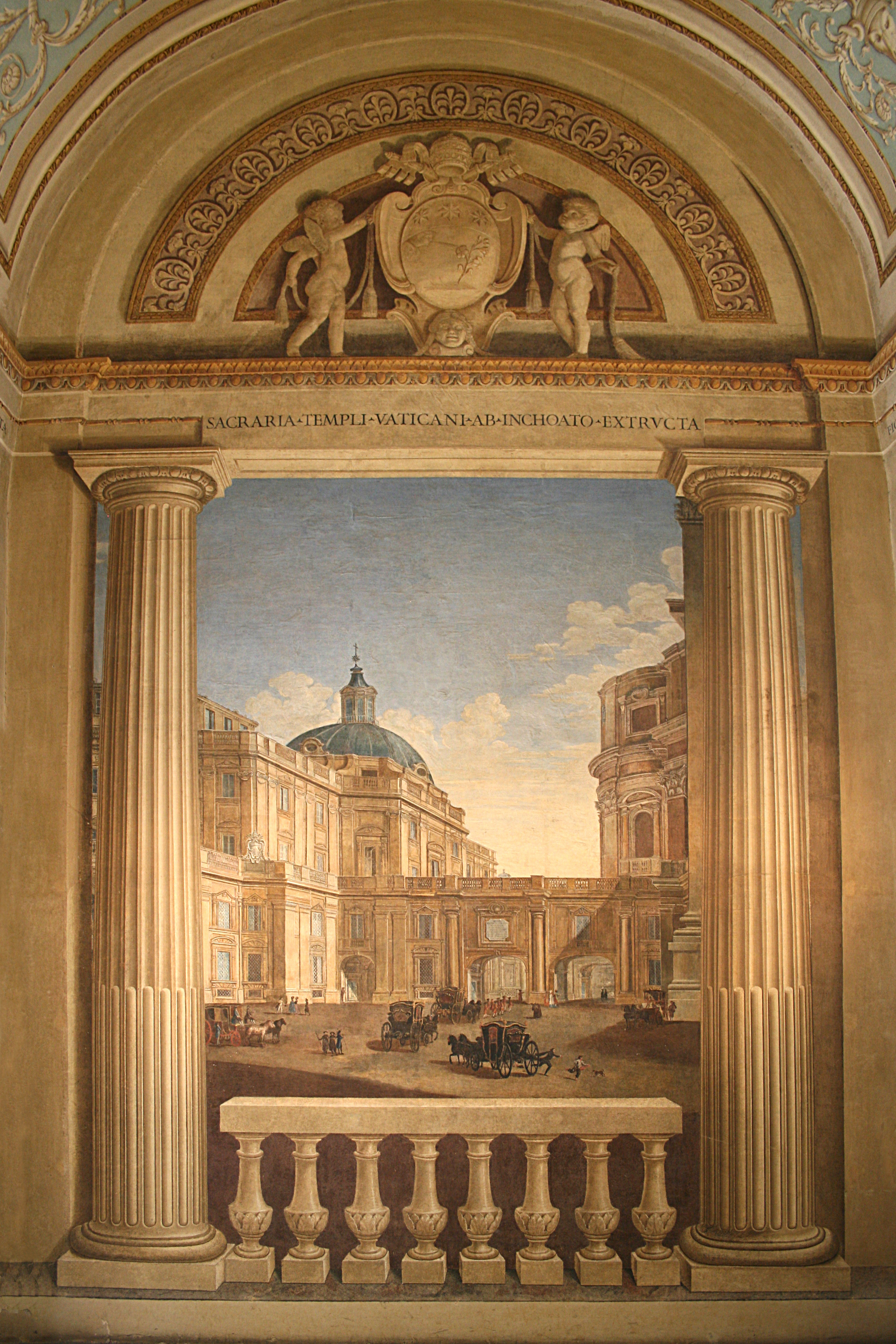 Fresco adorning the wall of the room XIX of the Gregorian Etruscan Museum.